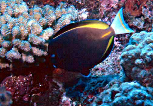 Acanthurus nigricans